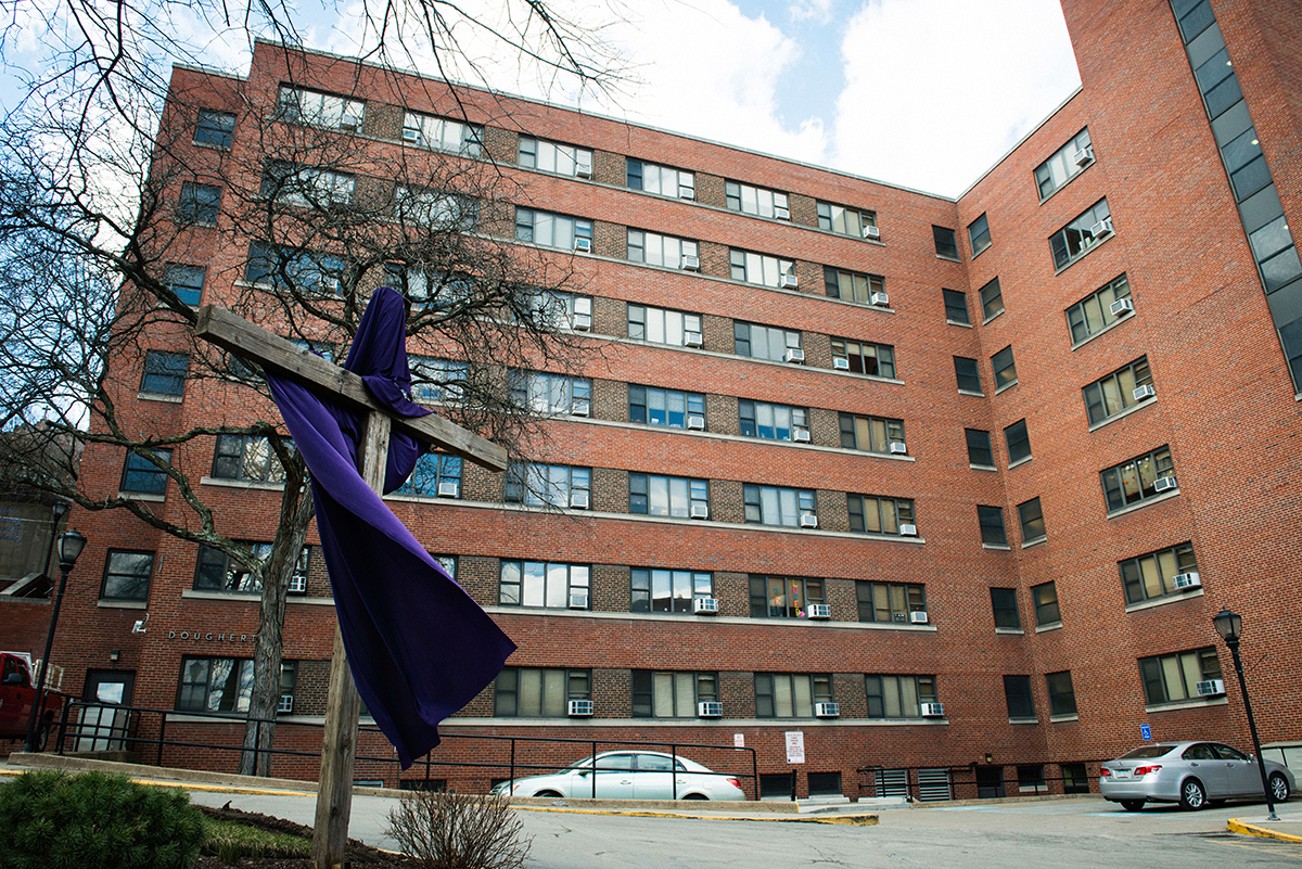 Carlow University Dougherty Hall facade and windows